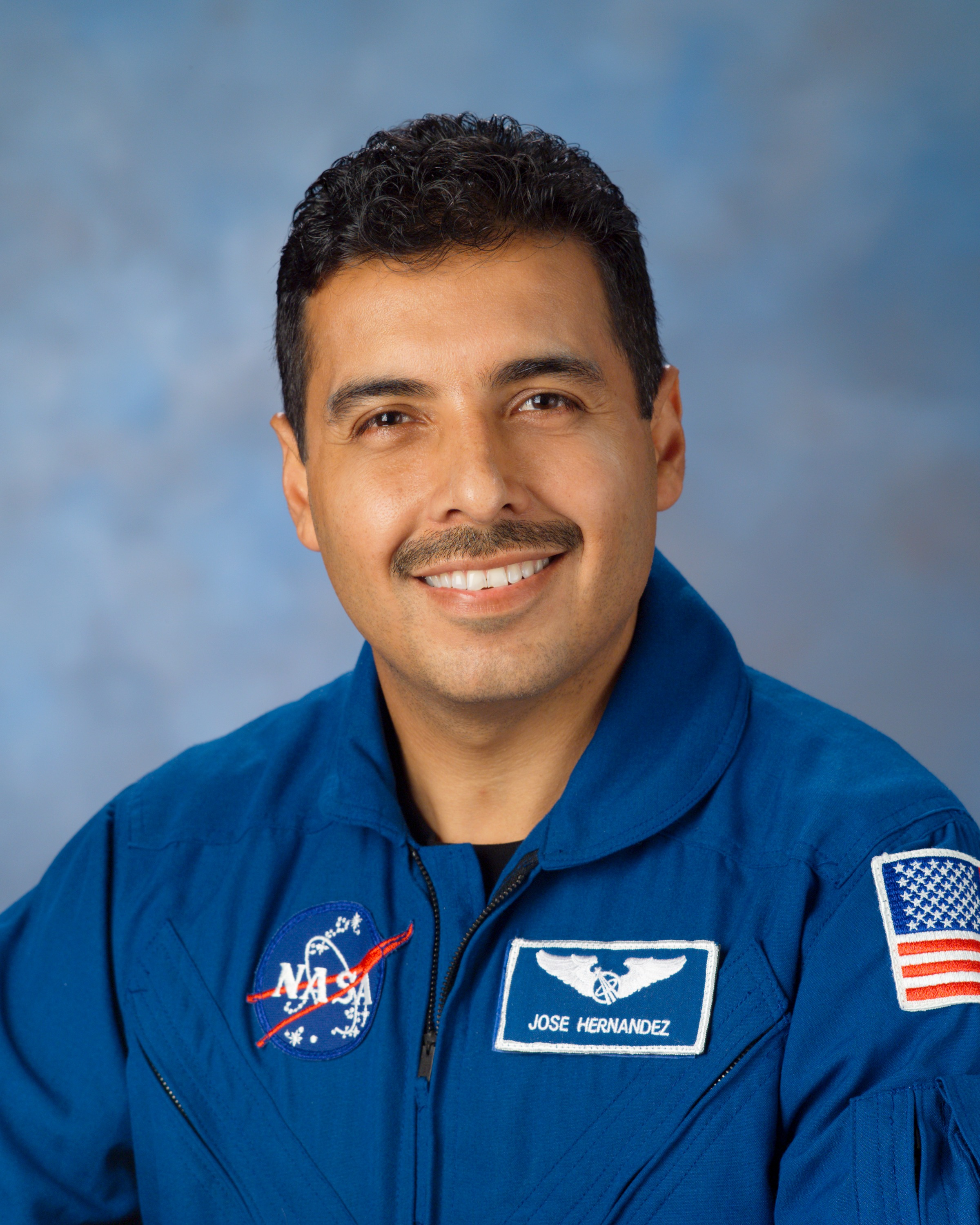 Jose Hernandez is a NASA austronaut currently assigned to the crew of Space Shuttle mission STS-128. (2008)